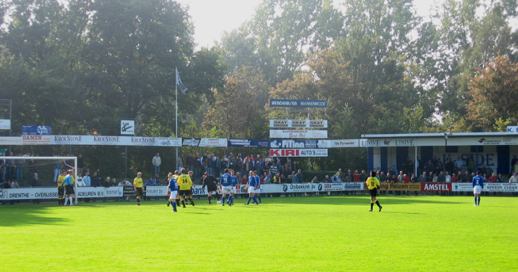 Hoogeveen - Alcides 2007